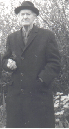 Eric Partridge, lexicographer, in 1971, on a visit to Devon